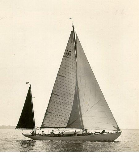 Sailing yacht Dorade. Designed by Olin Stephens.